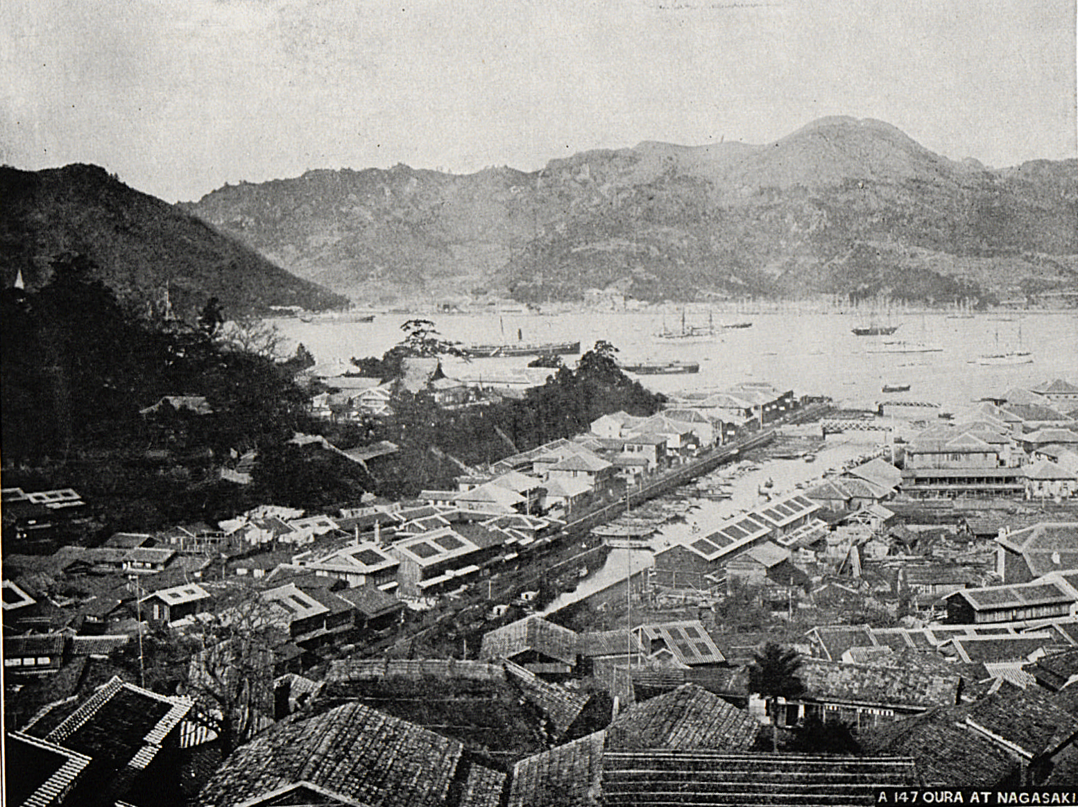 View of Oura (today Minamiyamate), Nagasaki the old harbour in 1900. (The landscape has changed significantly thanks to US nuclear bombing and subsequent land reclamation efforts.)